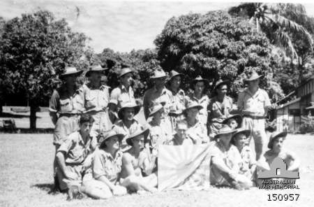 Australian soldiers at Goodenough Island, off the coast of New Guinea, with a flag captured during the battle in which the island was recaptured from Japanese forces